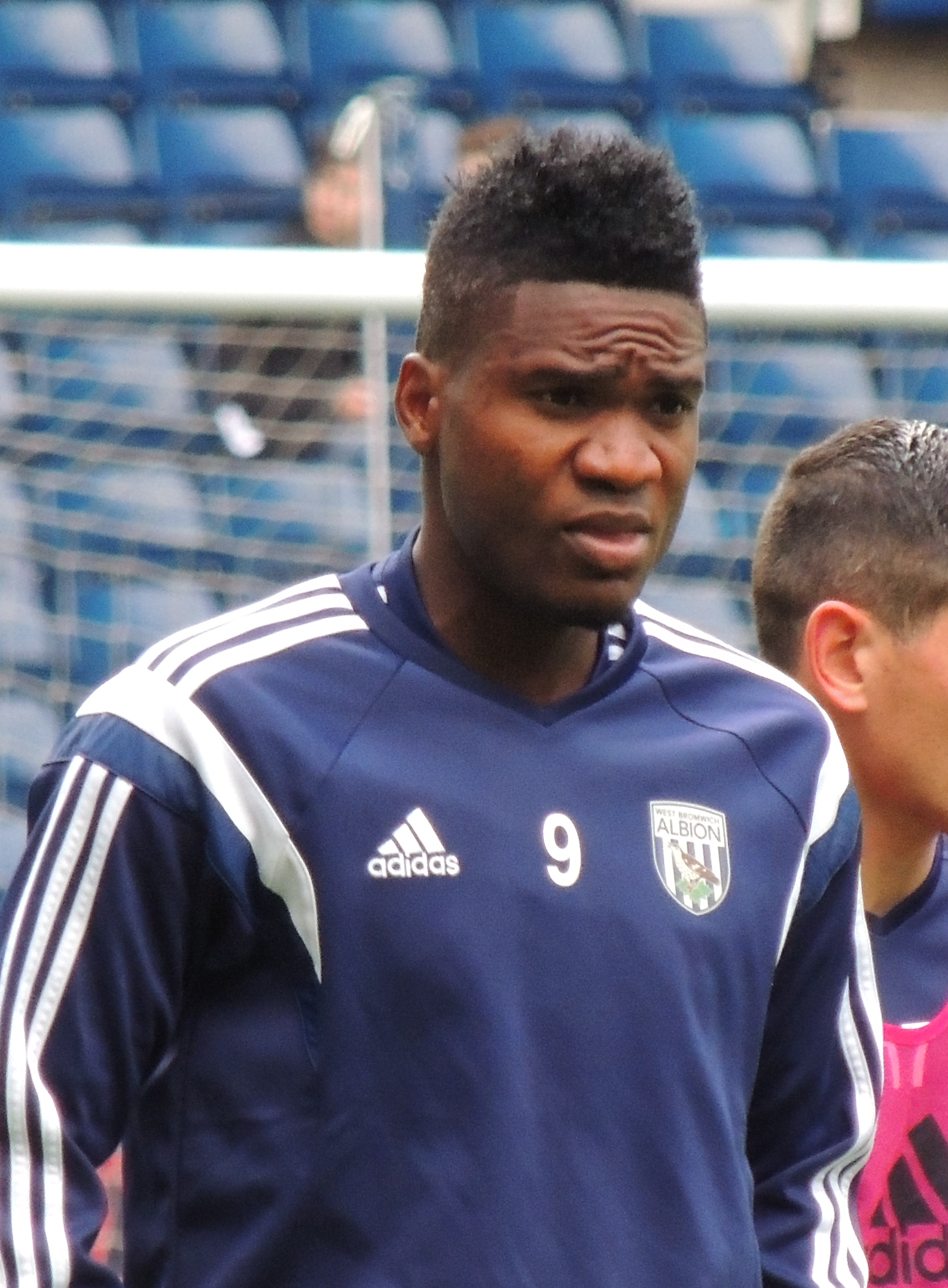 Brown Ideye warming-up for West Bromwich Albion in 2014.